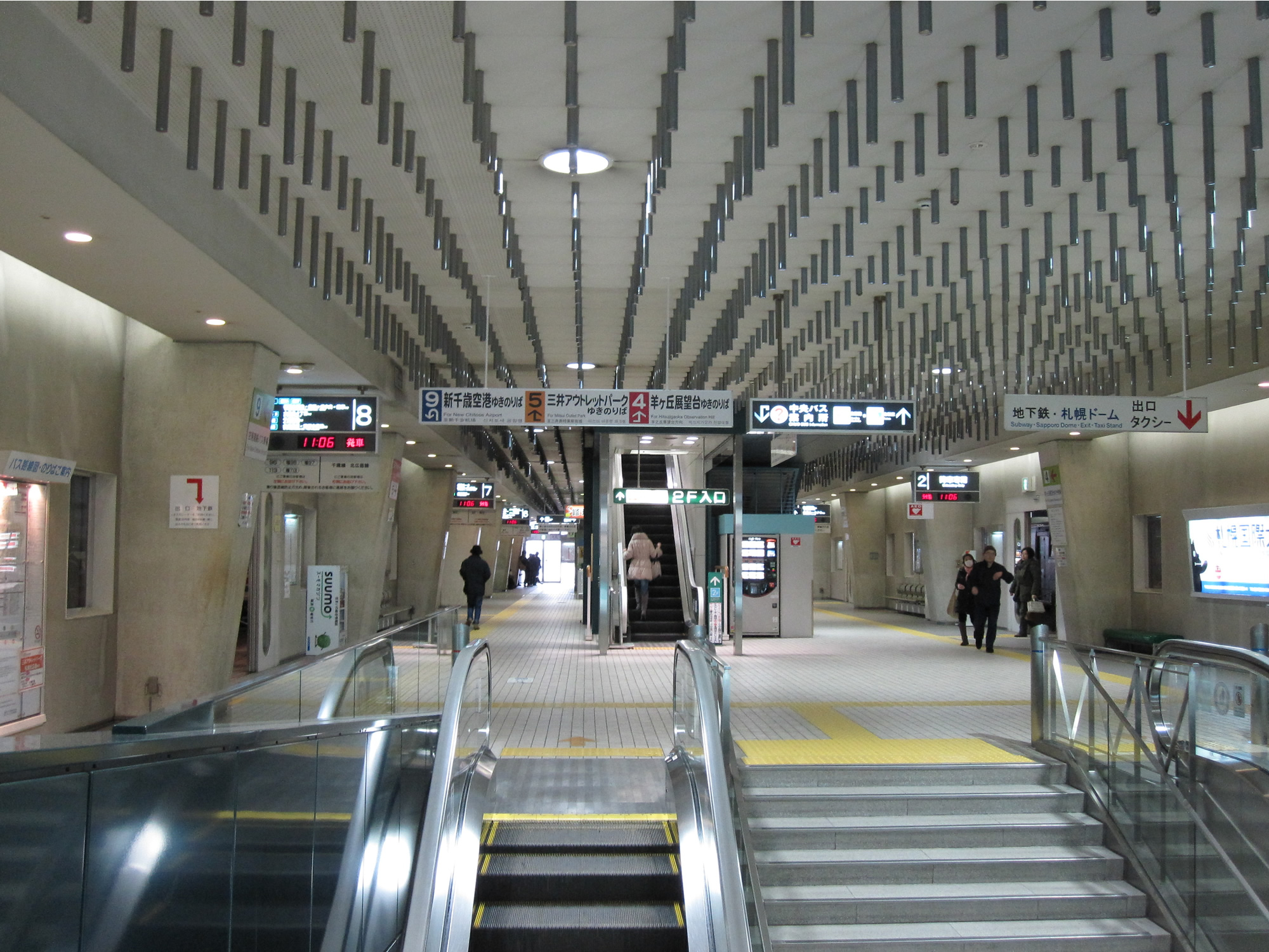 Escalator to the 2nd floor of Fukuzumi Bus Terminal in Sapporo City, Hokkaido, Japan